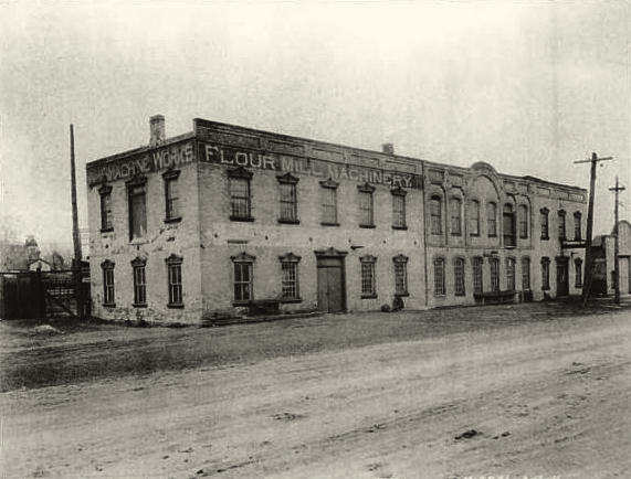 The historic Mill Works Building, Ypsilanti, Michigan